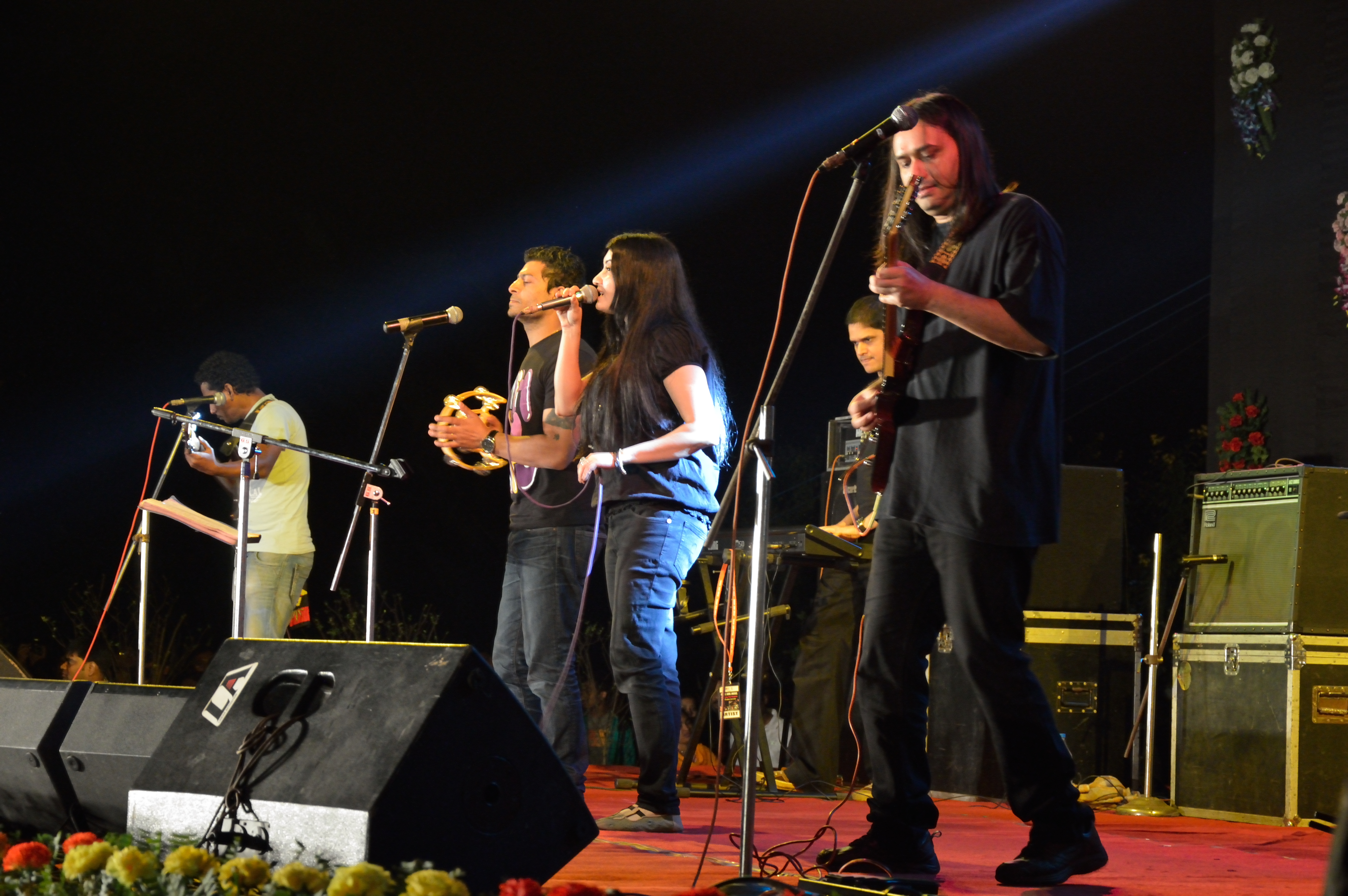 The 'Peace. Love. Music: Rocking The Region' - a multi-band concert that organized by the American Center, Kolkata in collaboration with banglanatak dot com was held at the Mohor Kunja, Kolkata on Saturday 14 December 2013 evening in front of about three thousand audience for three hours. The concert featured with 'Arnob and friends' from Bangladesh, 'Joint Family Internationale' from Nepal and 'Krosswindz' from India.